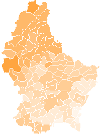 A map of communes of Luxembourg after mergers of 2006-01-01, colour-coded by the altitude of the highest peak in the commune. The altitude is denoted by eight different shades of orange; in order of increasingly darker shades, the lower bounds (in m) are: 0, 300, 350, 375, 400, 450, 500, 550.